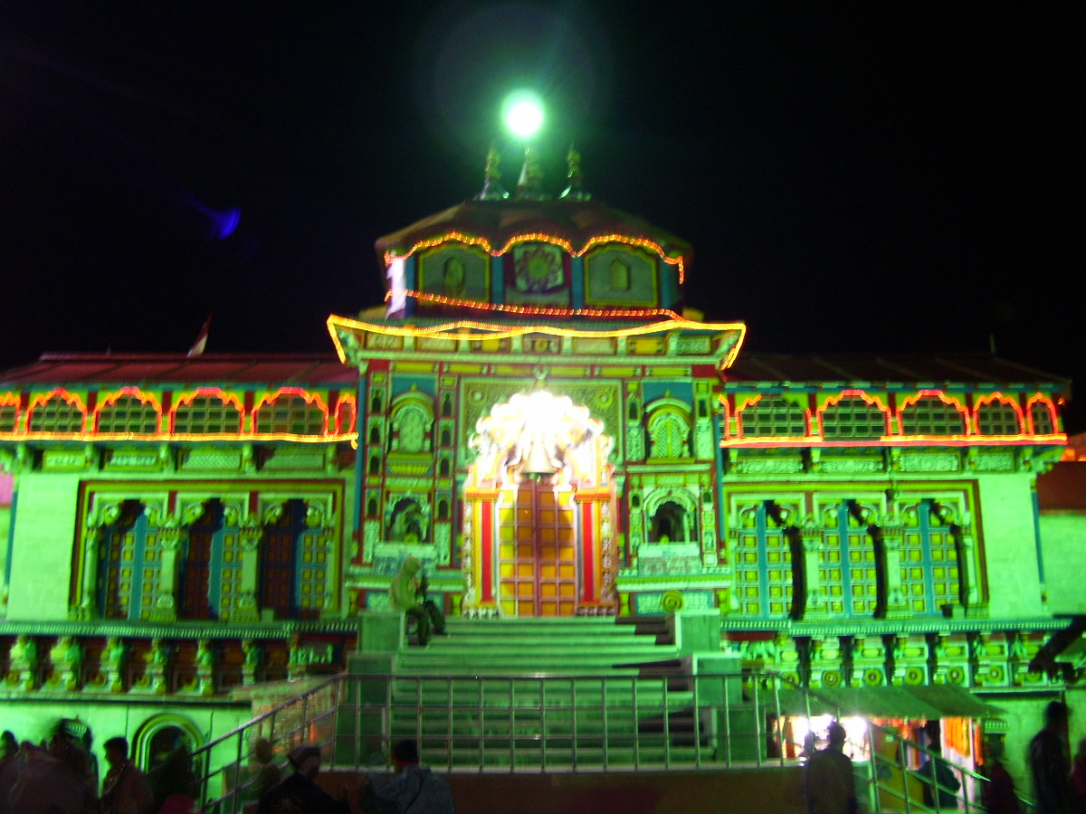 Entrance of Badrinath Temple at night.